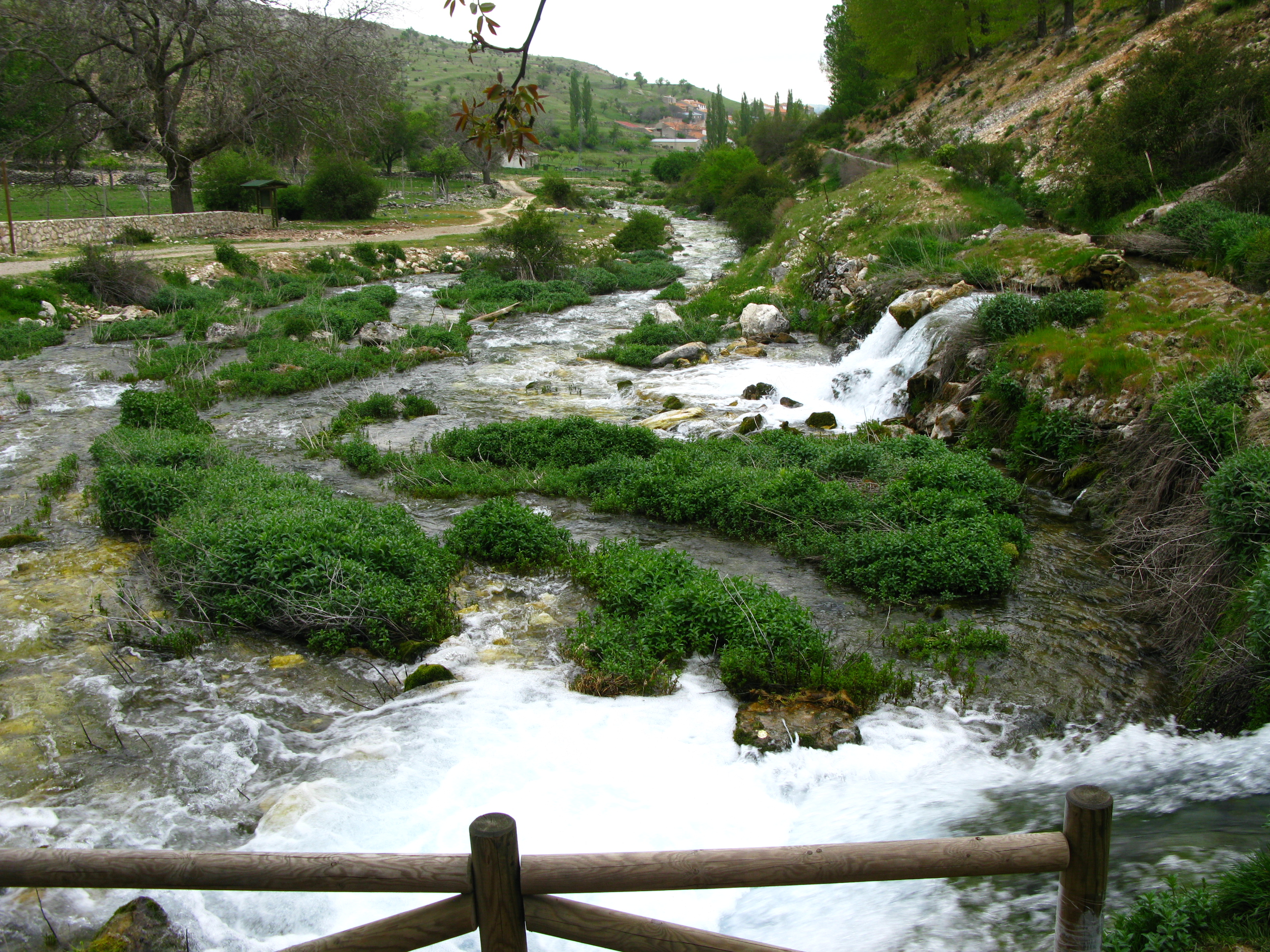 Water flowing out of the source forming the beginning of the Rio Segura.